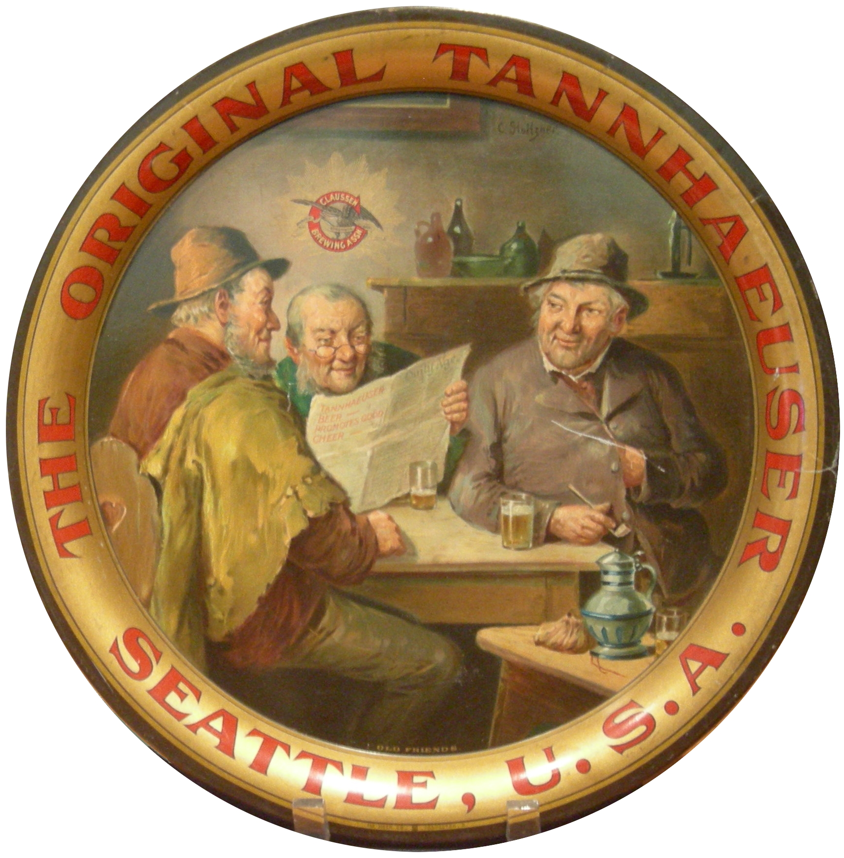 Tray advertising Tannhaeuser, circa 1910, Museum of History and Industry (MOHAI), Seattle, Washington.